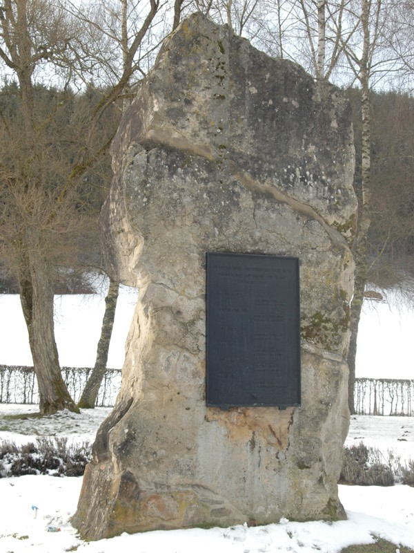 Memorial stone of European monument at border triangle Germany-Belgium-Luxemburg